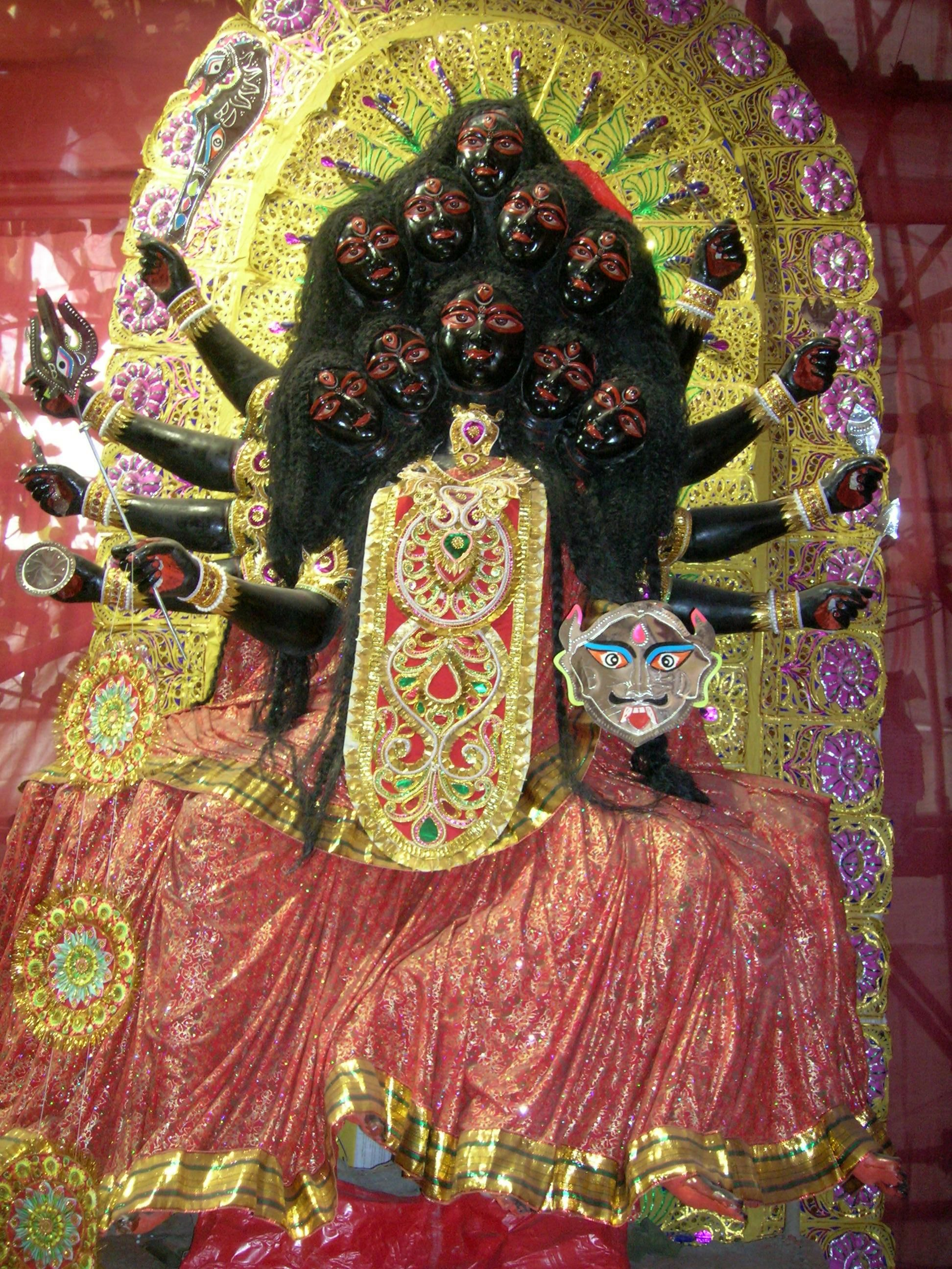 Hindu Goddess Mahakali, Behala Sri Sangha Durga Puja pandal, Kolkata, 2011.